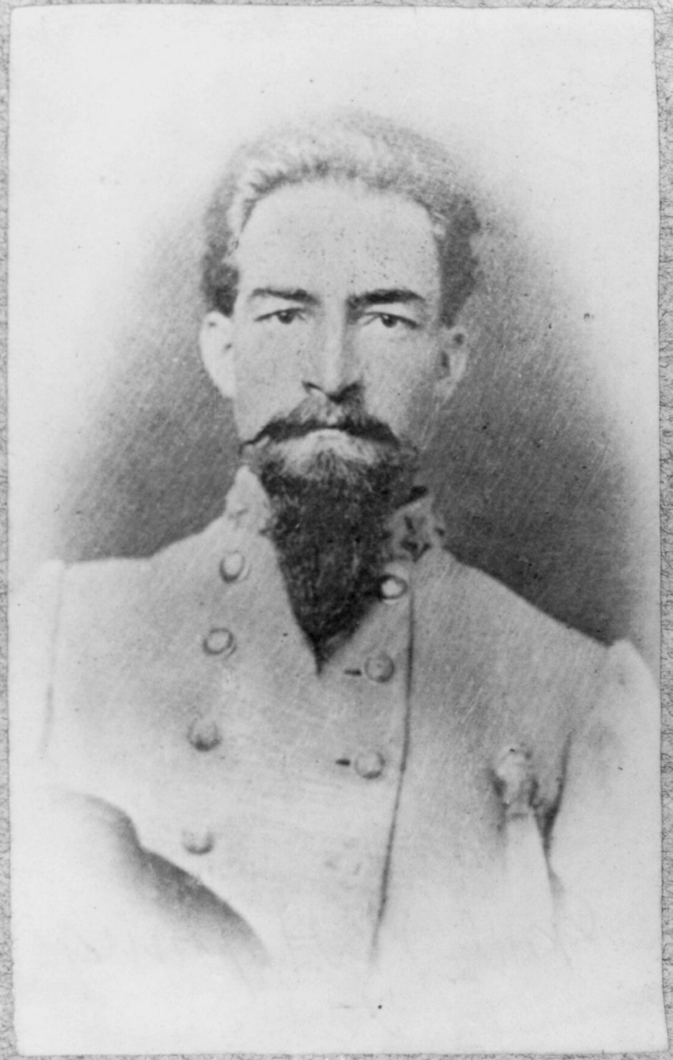 Title: William Hugh Young, 1838-1901, head and shoulders portrait, facing slightly right. Colonel, 9th Tex. Infantry Physical description: 1 photographic print. Notes: This record contains unverified, old data from caption card.; Civil War Photograph Collection (Library of Congress).